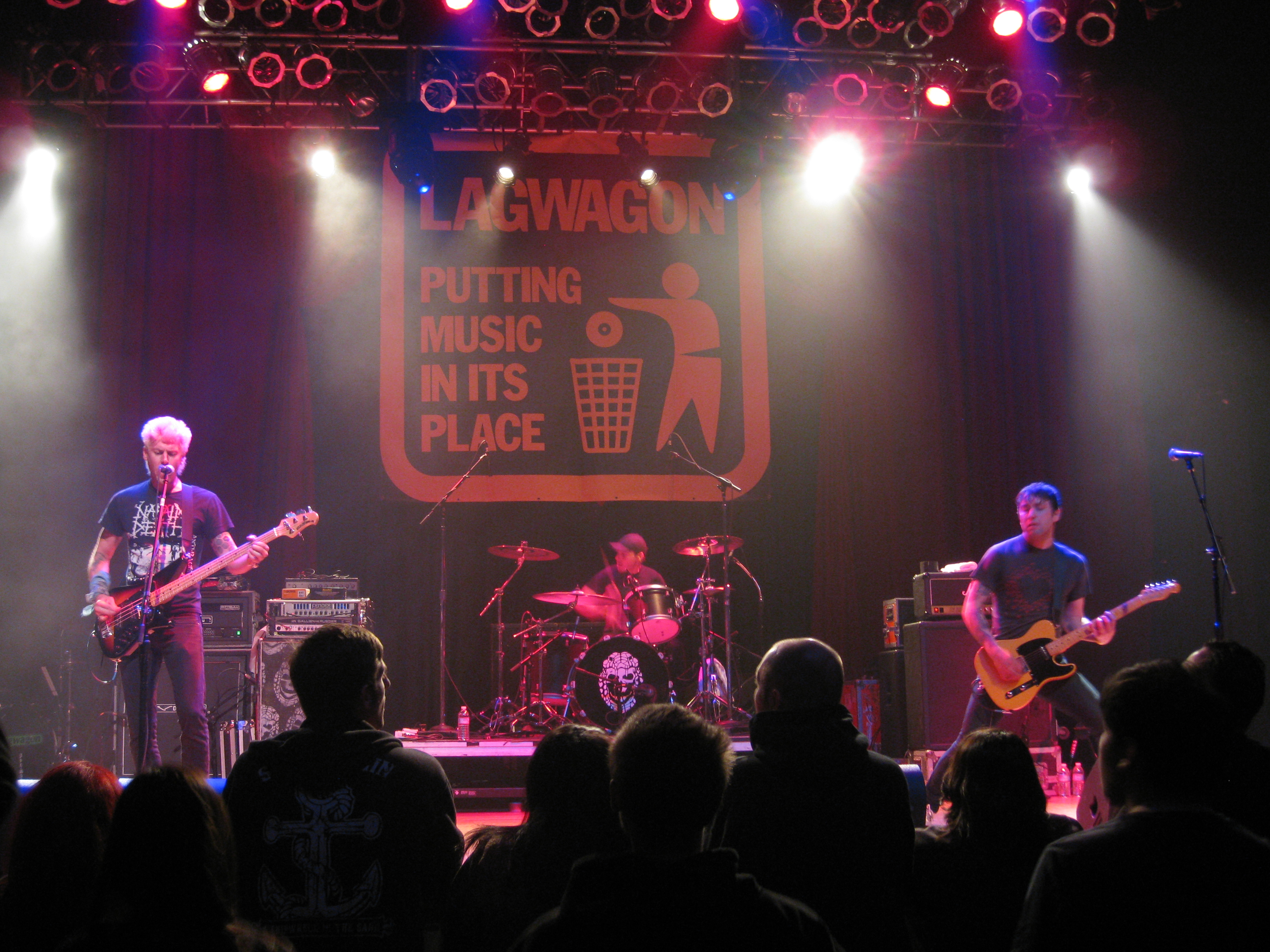 Cobra Skulls performing March 9, 2012 at the House of Blues in San Diego, California. Left to right: bassist/vocalist Devin Peralta, drummer Luke Swarm, and guitarist/vocalist Tony Teixeira.